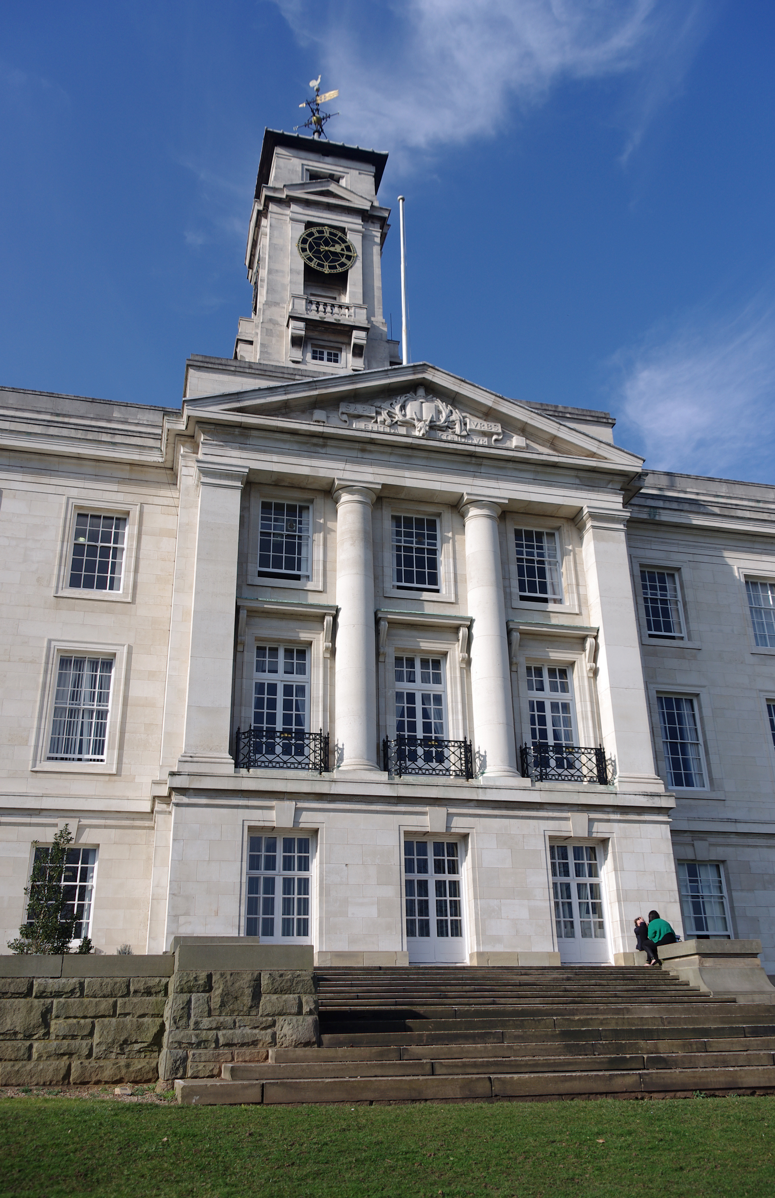 Central range of the front of the Trent Building, Univertisy of Nottingham